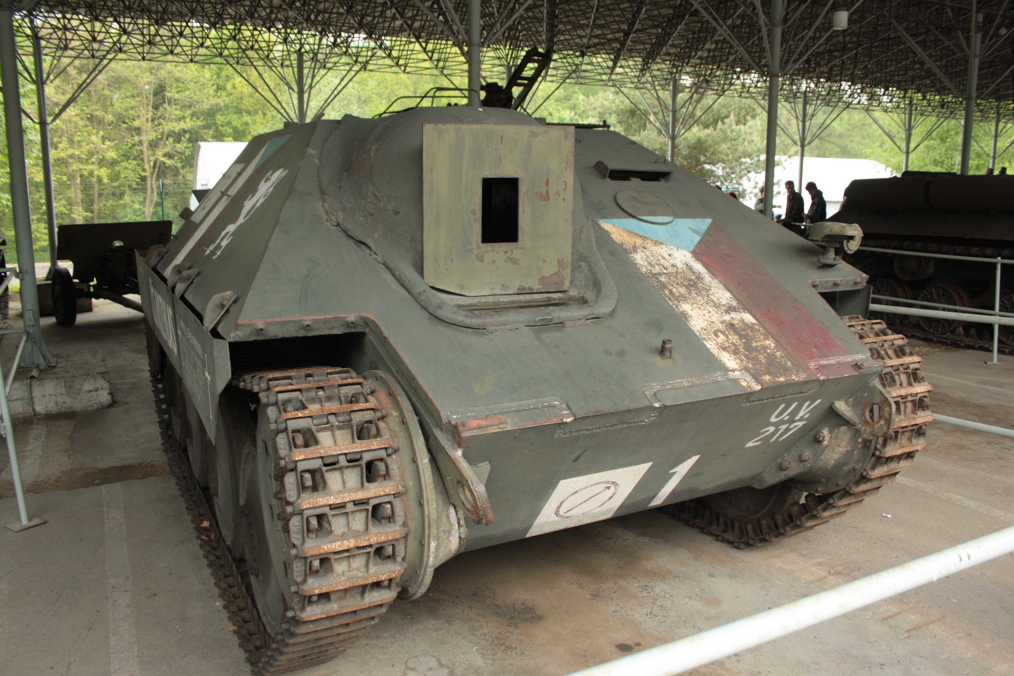 Jagdpanzer 38(t) not completed and hijacked by Czech rebels during may uprising in Prague in 1945. Central Bohemian Region, CZ